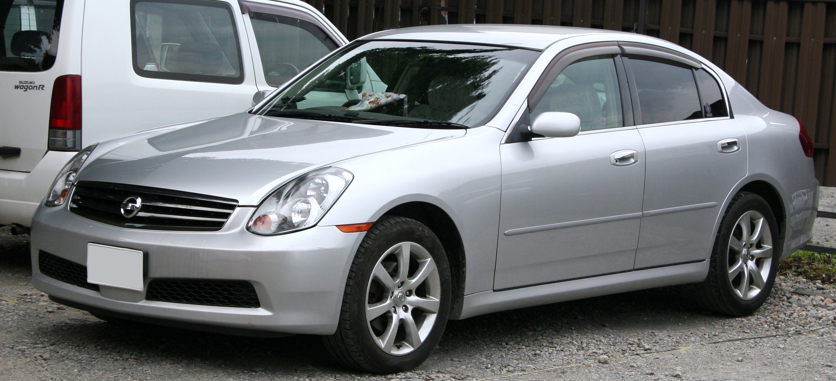 Nissan Skyline